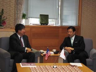 Consul General Edward Dong met Governor of Kyōto Prefecture Keiji Yamada at Kyōto Prefectural Government Building in Kyōto City, Kyōto Prefecture on September 24, 2008.